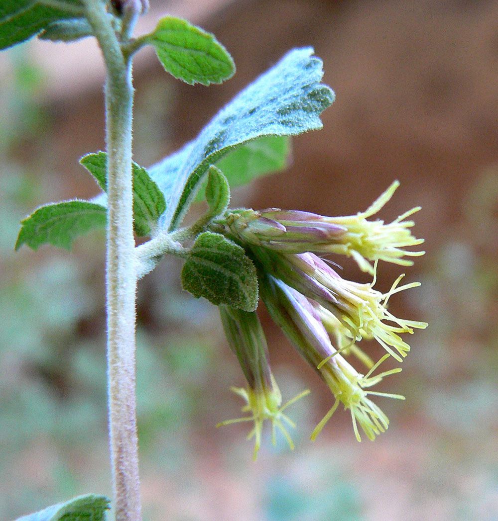 Brickellia californica, Calico Hills, Red Rock Canyon, southern Nevada